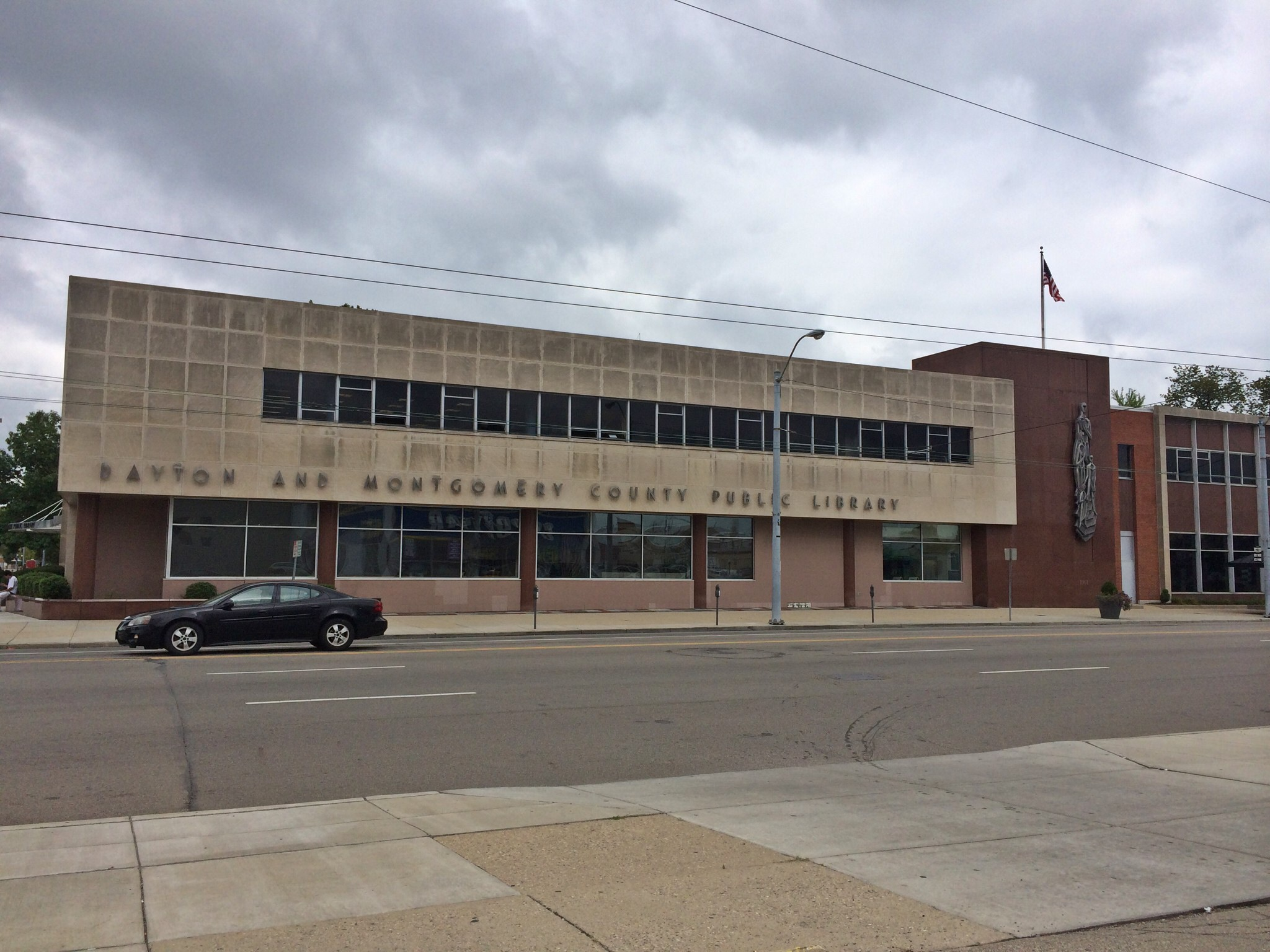 Main Library Facade - Downtown Dayton